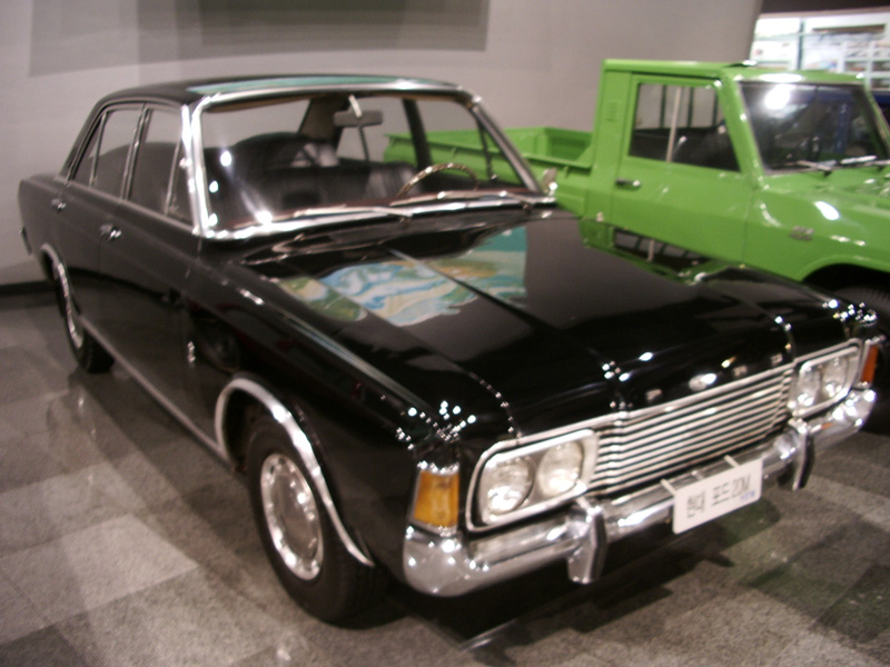 Hyundai Business Group was a late entrant to the automotive industry, establishing Hyundai Motor Company only in 1967 and commencing production in 1968. However, Hyundai was well prepared thanks to its ample capital, made possible by Hyundai's successes in construction and shipbuilding. This was the luxury offering from Hyundai: Ford Taunus 20M (not to be confused with Ford Taurus#. Hyundai partnered with Ford of Europe for its initial models; the Cortina was the midsize car/taxicab offering. The 20M, competing with the Shinjin-built Toyota Crown, proved its worth in 1970, when the Seoul-Busan Expressway opened and it was able to take advantage of the 100 km/h allowed speed easily. Hyundai built 2,406 examples of the 20M between 1969 and 1973. South Korea was still a poor Third World country and demand for luxury cars was negligible.